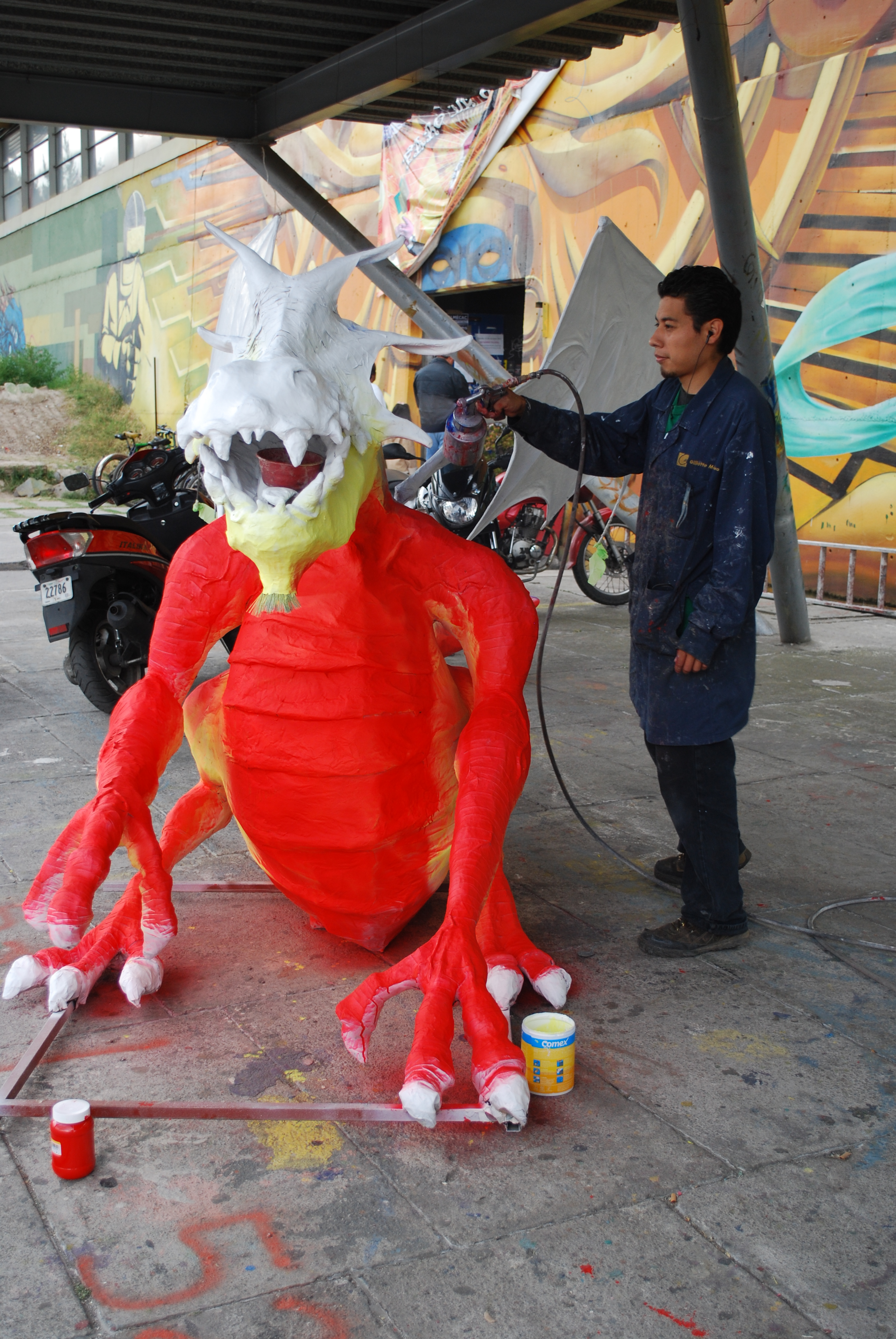 Alebrije en progress at the Fábrica de Artes y Oficios de Oriente (FARO) in Iztapalapa, Mexico City